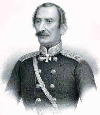 Prince Bebutov, Vasily Osipovich, Russian genral of the infantry.